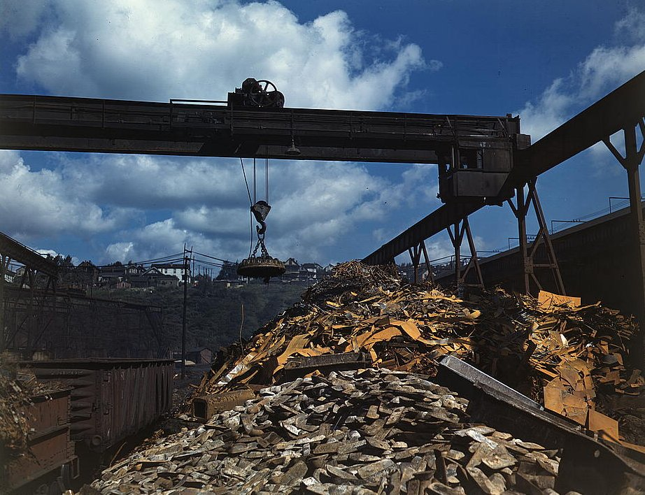 Palmer, Alfred T.,, photographer. Back into production go these carloads of scrap metal, Allegheny Ludlum Steel[e] Corp., Brackenridge, Pa. The melting of alloy steels for defense work requires that steel mill scrapyards such as this be constantly filled. The overhead magnet deposits the scrap in a loader which carries it to the open-hearth furnace. About 50 per cent scrap steel is used in open-hearth production [1941?] 1 transparency : color. Notes: Title from FSA or OWI agency caption. Transfer from U.S. Office of War Information, 1944. Subjects: Allegheny Ludlum Steele Corporation World War, 1939-1945 Steel industry United States--Pennsylvania--Brackenridge Format: Transparencies--Color Repository: Library of Congress, Prints and Photographs Division, Washington, D.C. 20540 USA, Part Of: Farm Security Administration - Office of War Information Collection 12002-27 (DLC) 93845501 General information about the FSA/OWI Color Photographs is available at Persistent URL: Call Number: LC-USW36-270